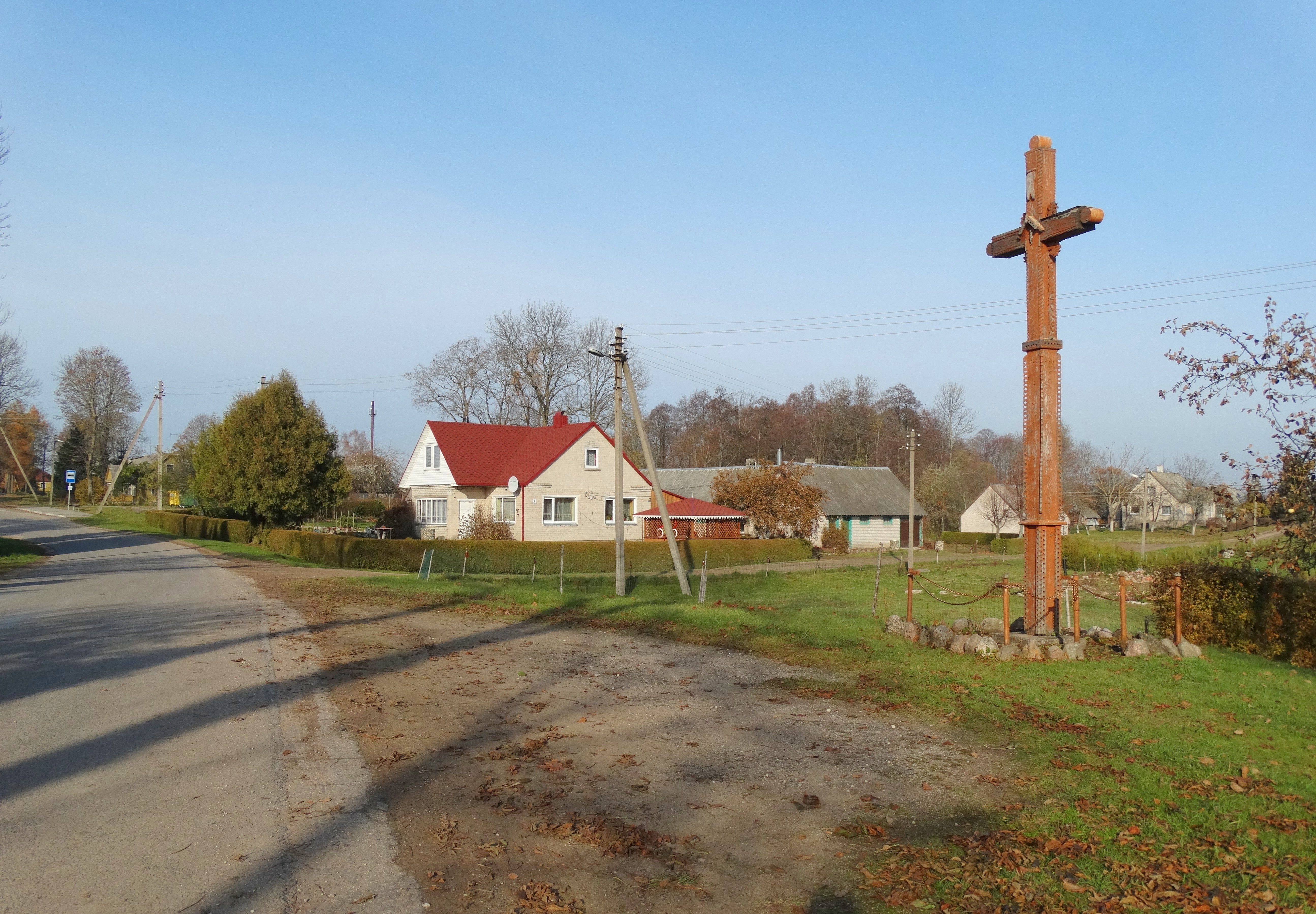 Juknėnai, Utena district, Lithuania